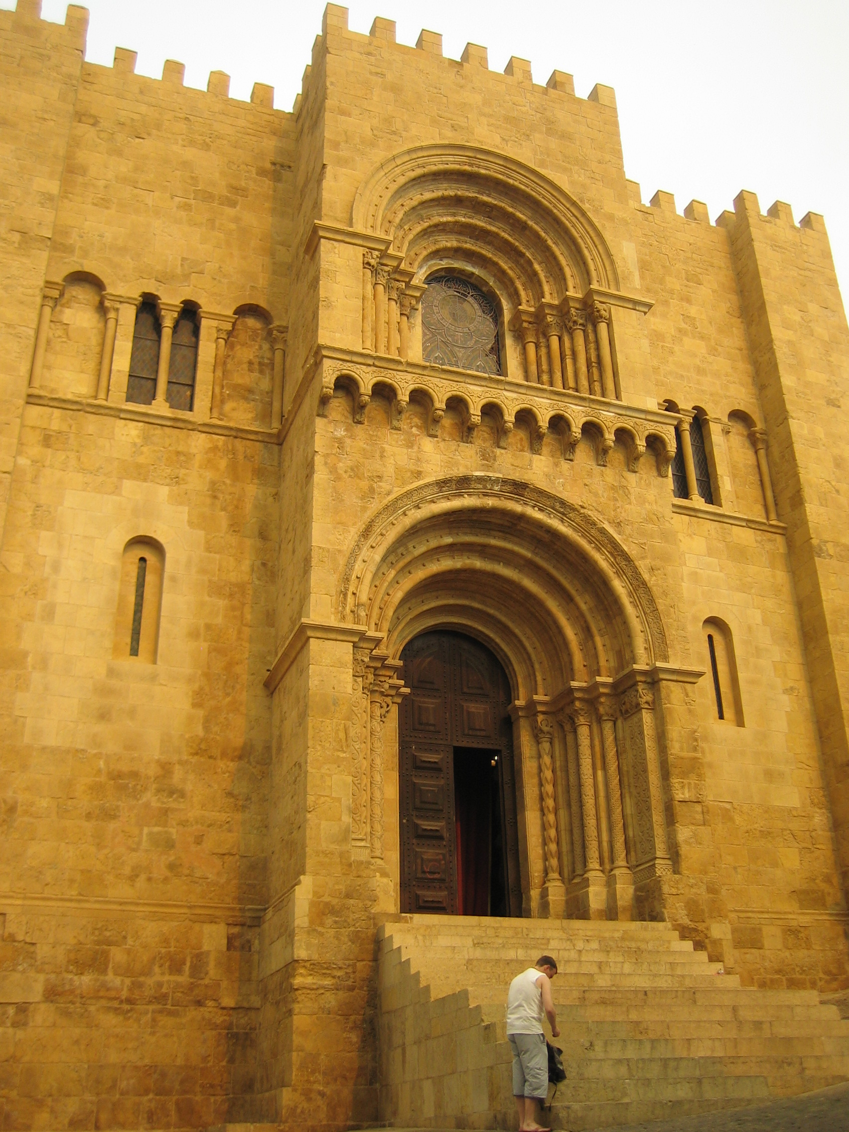 Author: Raph Date: 5 August 2005